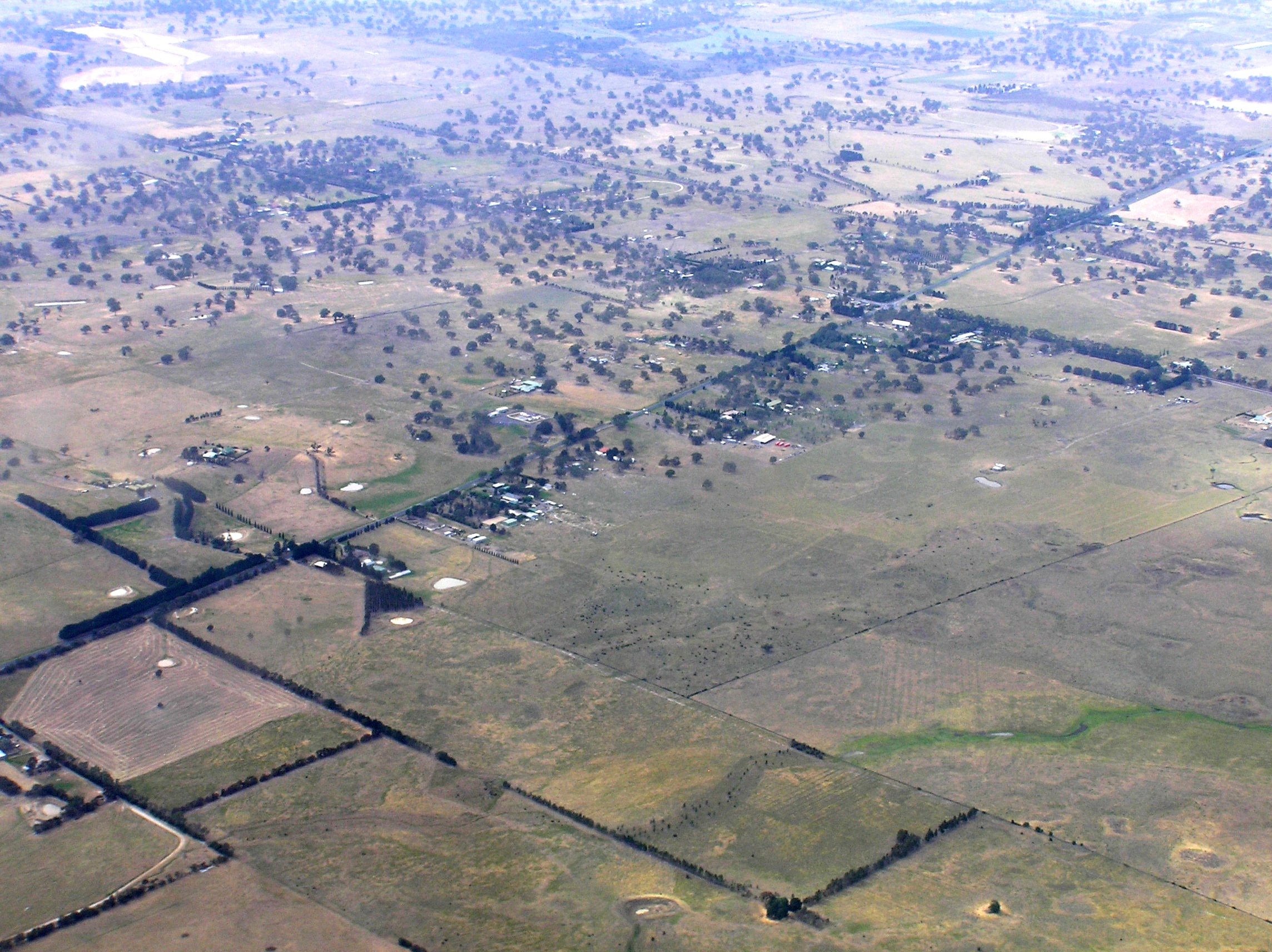 Woodstock Merriang Rd in Victoria Australia, aerial view from north west